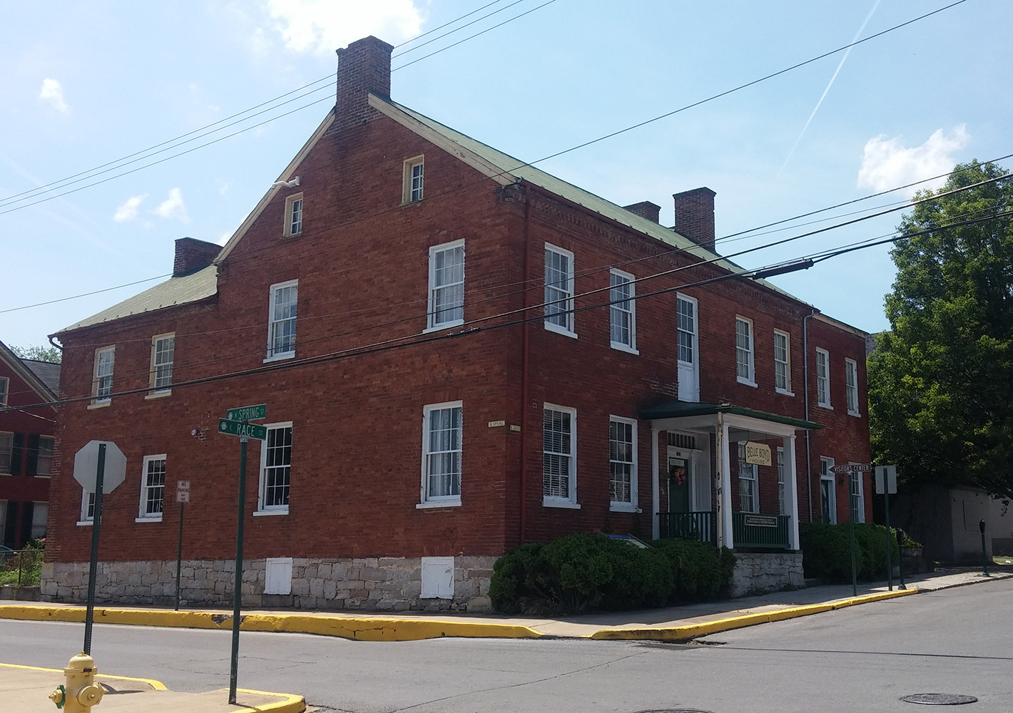 Belle Boyd house in Martinsburg